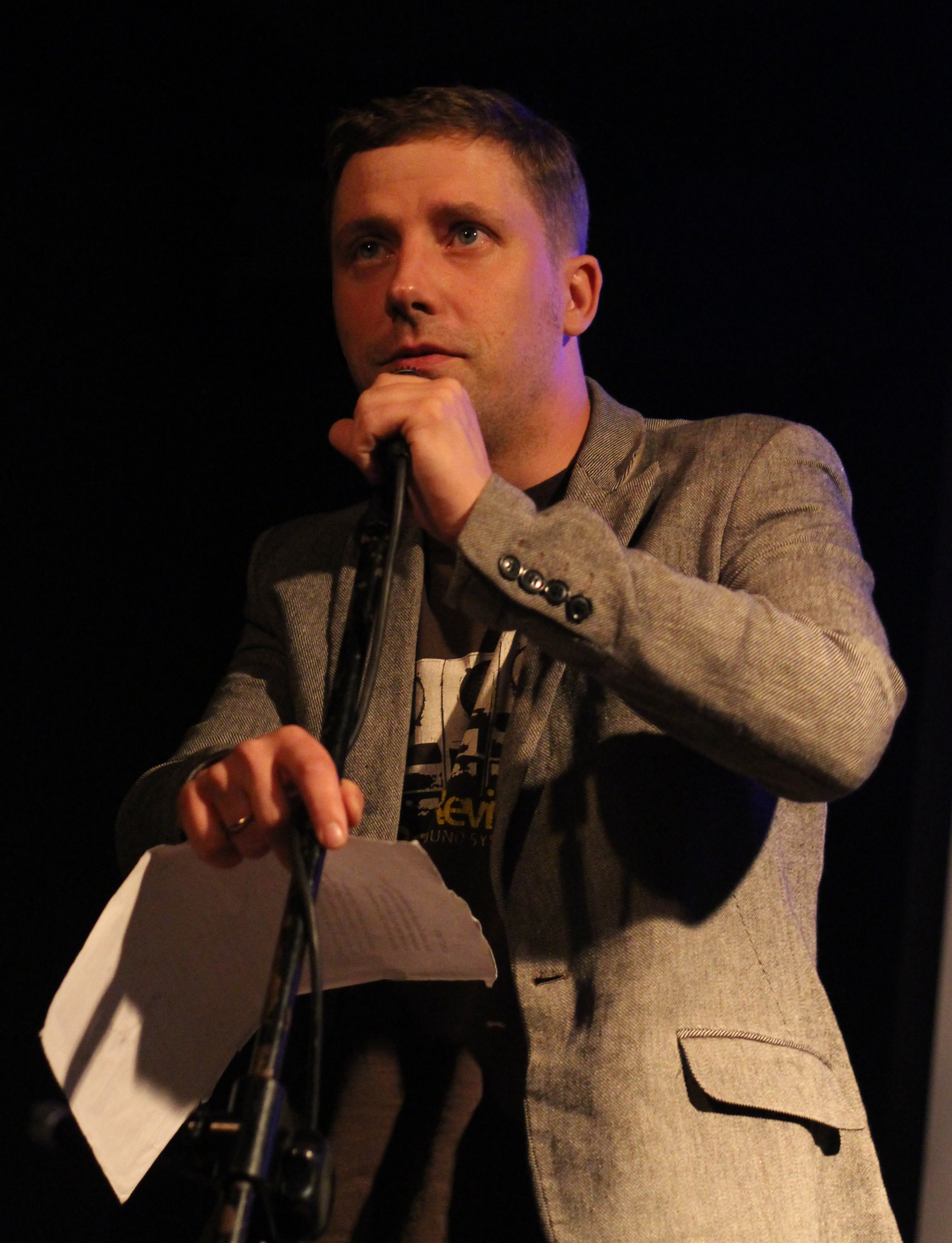 Pablopavo, Polish reggae and raggamuffin vocalist, performing at 20th edition of "Gadający Pies" ("The Talking Dog") in Cracow.